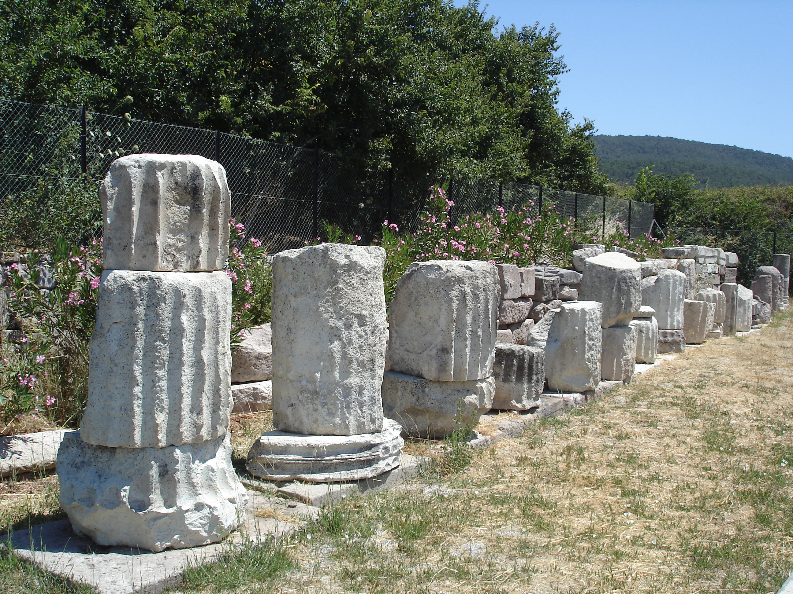 Mesa Temple in Agis Paraskevi, Lesbos, Greece